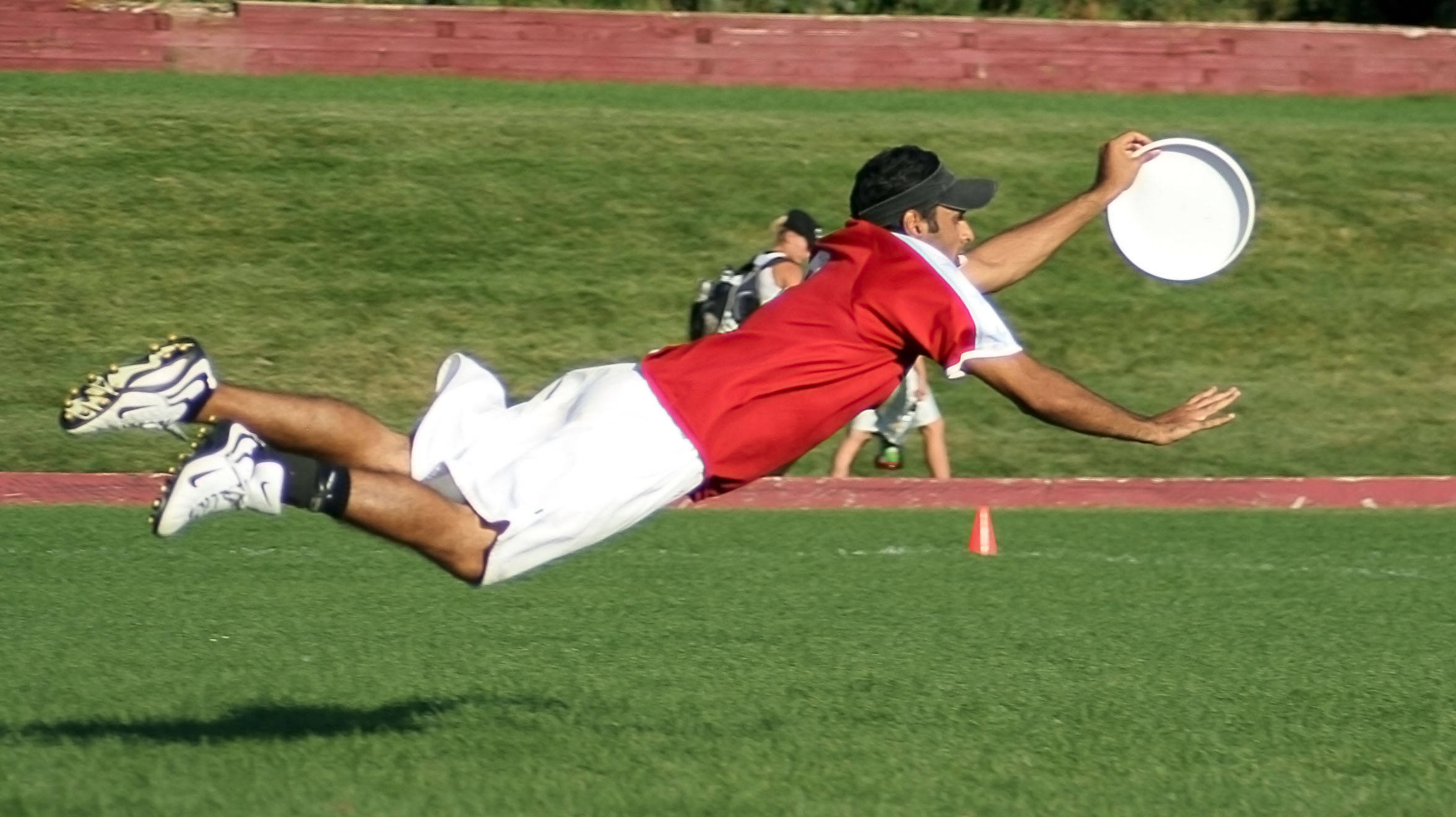 Source: Adam Ginsburg Colorado Cup 2005